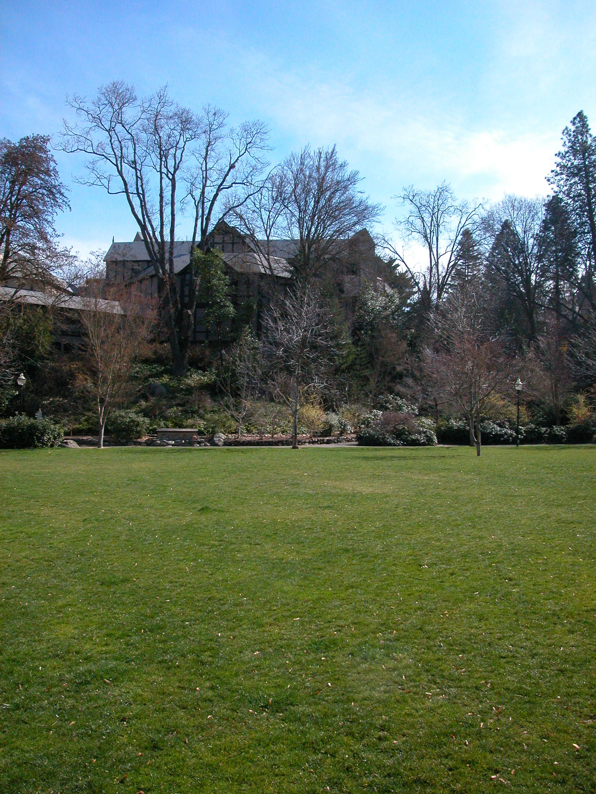 Lithia Park's green with theater above This photograph was taken by me on March 5, 2005.